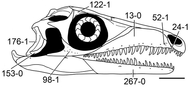 A diagram of the skull of Prolacerta broomi, an archosauromorph. Image is in right lateral view. Scale bar equals 1 centimeter. Numbers indicate character states scored in the data matrix. Character state scores= 13-0: Absence of an antorbital fenestra. 24-1: The premaxilla-maxilla suture is notched along its lower edge. 52-1: The presence of an anterior maxillary foramen. 98-1: Multiple pits on the lateral surface of the jugal. 122-1: The postfrontal is reduced to less than half the size of the postorbital. 153-0: The quadratojugal lacks an anterior process, instead the anteroventral margin of the bone is rounded. 176-1: The quadrate is shallowly emarginated. 267-0: The tooth-bearing portion of the dentary is mostly straight.